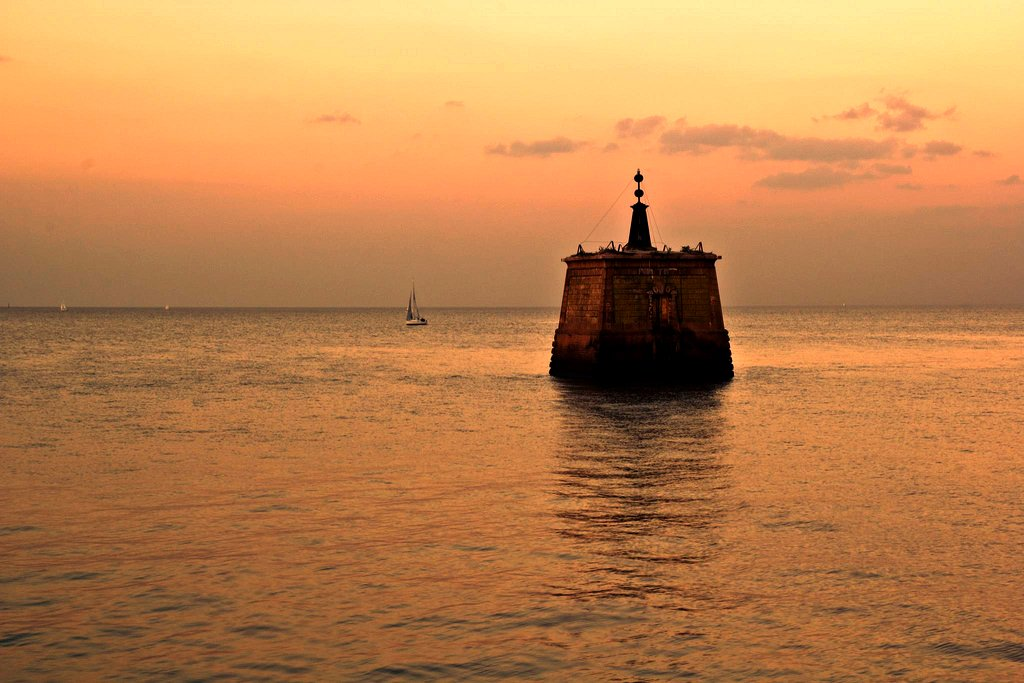 A water intake structure on the Río de la Plata, viewed from the Costanera Norte promenade, Bajo Belgrano, Buenos Aires.